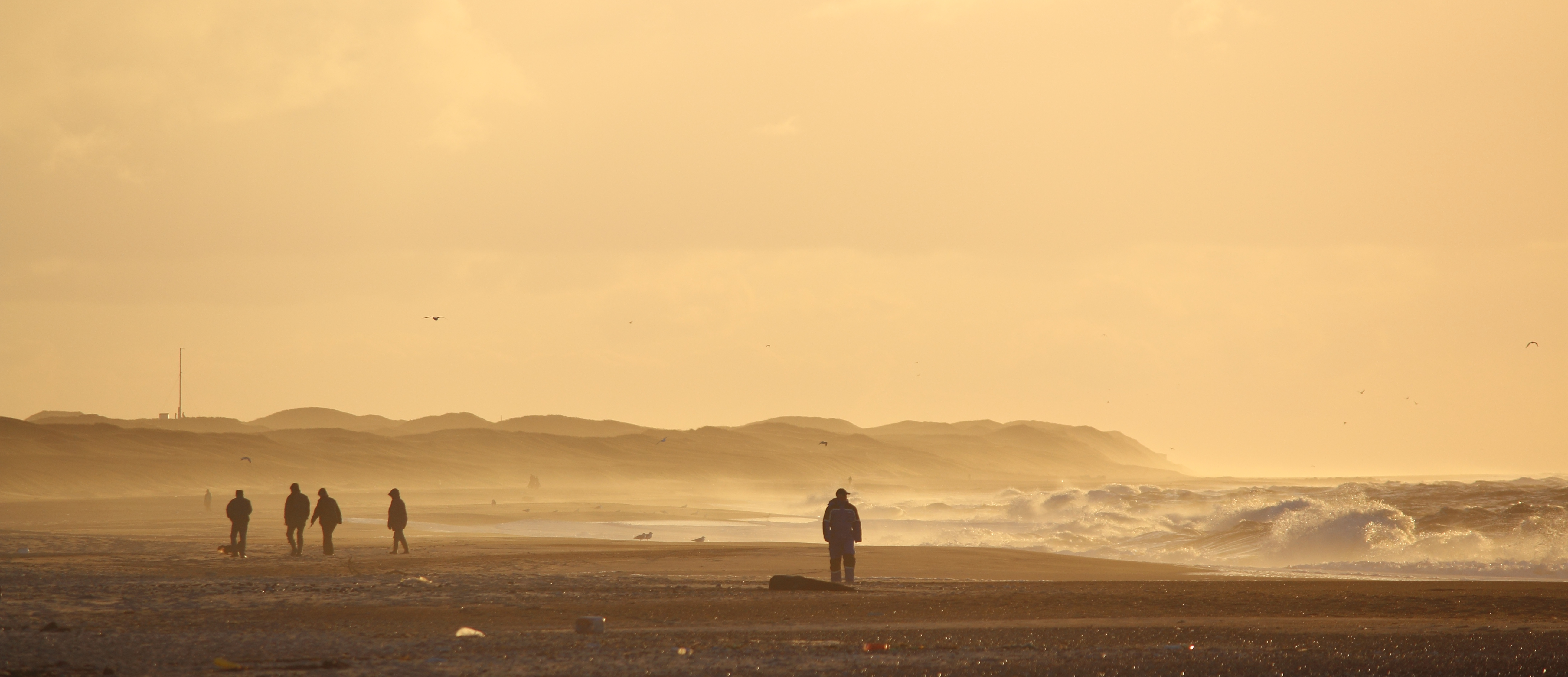 Coast looking to the south at Nørre Vorupør, Denmark at sunset. The light was very special.